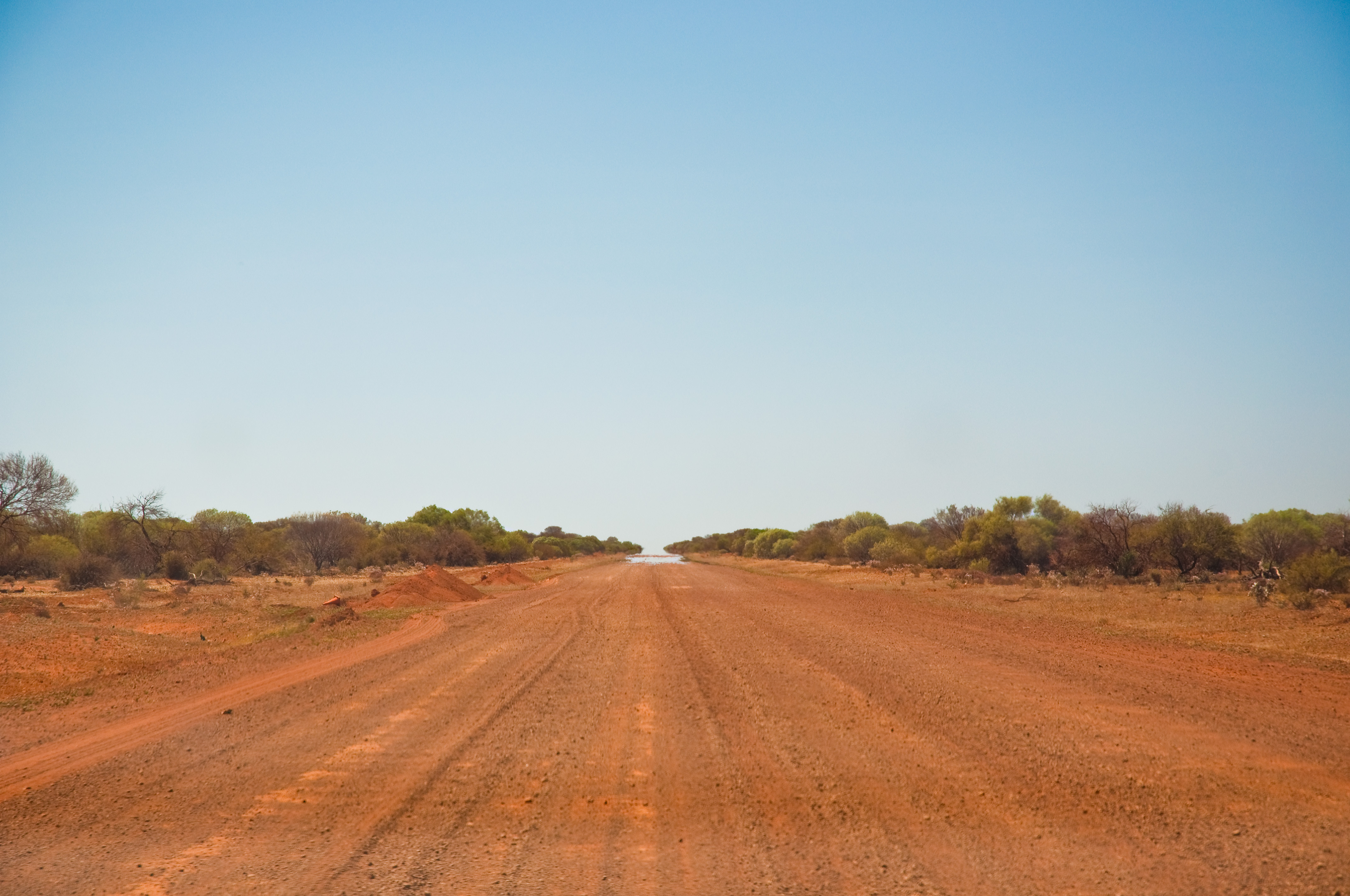 At about here I began to realise why I was doing this. It wasn't to 'see the outback'. The whole point was to drive aimlessly vast distances over these empty roads. It was just another stage of the emotional journey I have been on for the past 4 months.